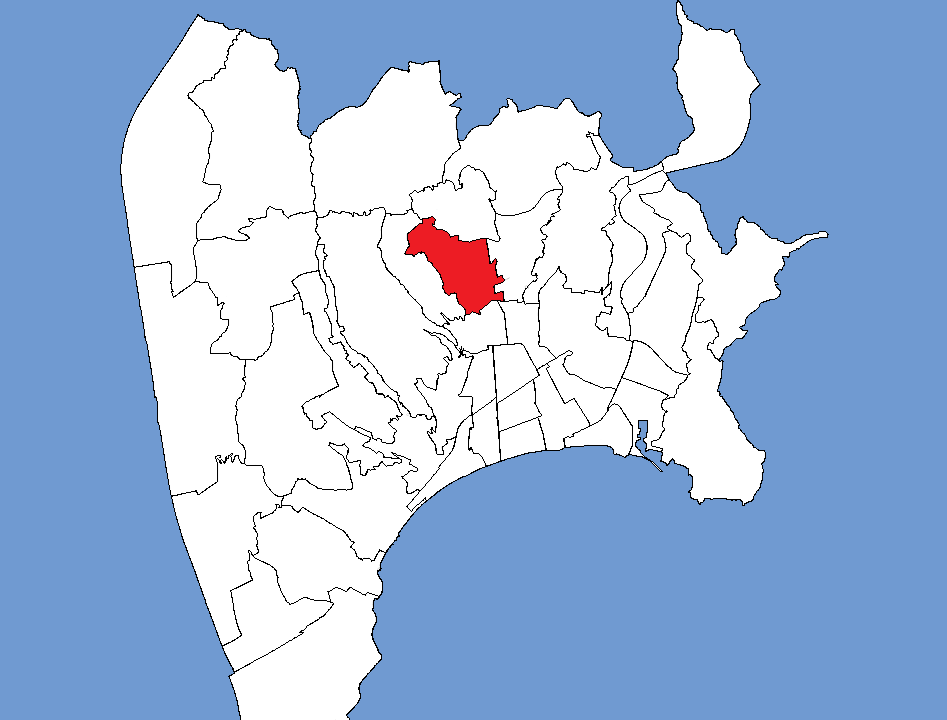 Location of the neighbourhood Saint Sylvestre in Nice